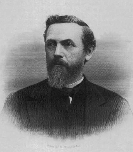 1860s Lithograph of John McArthur Jr. of Philadelphia, PA.